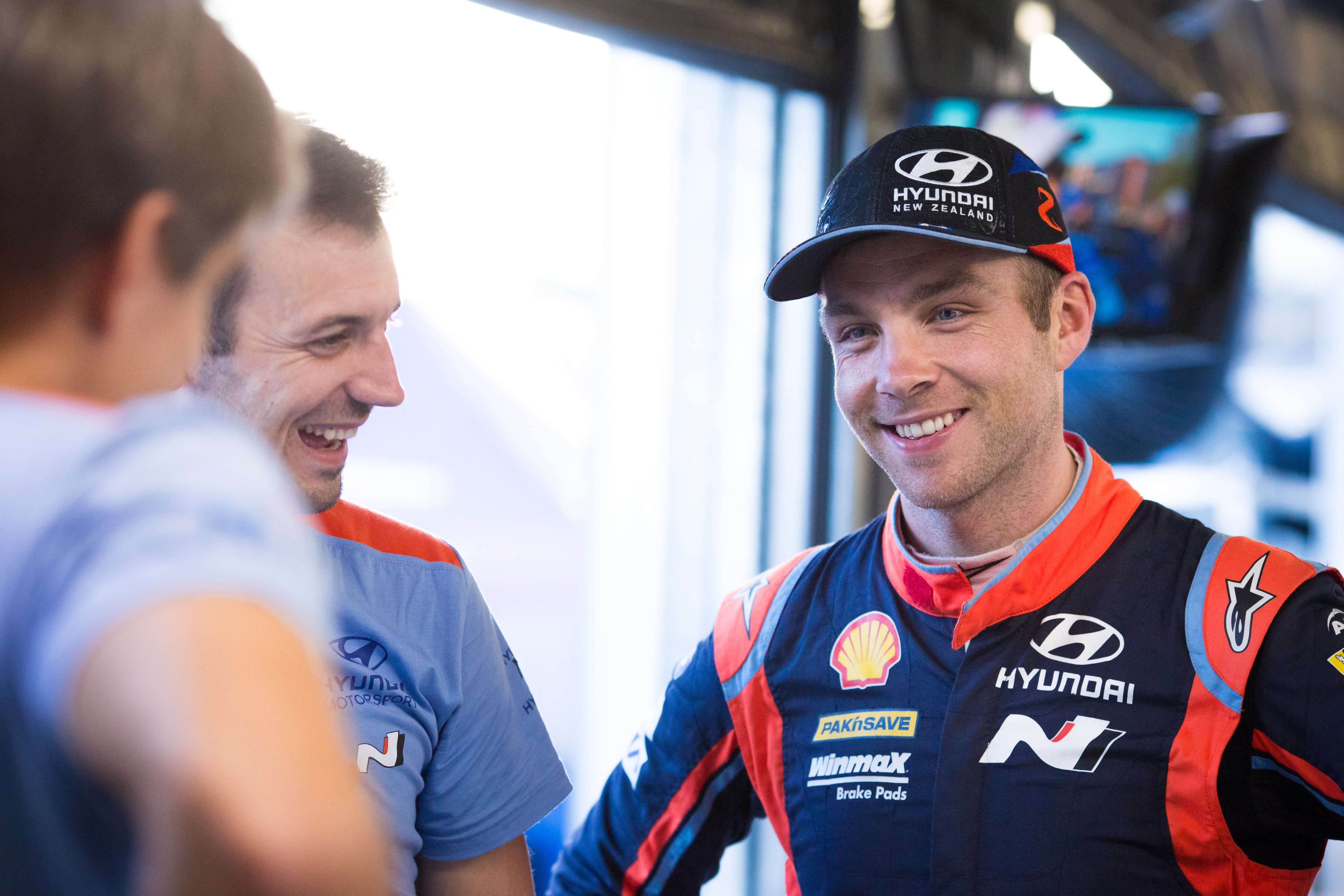 2018 FIA World Rally Championship Round 08 Rally Finland 26-29 July 2018 Hayden Paddon, Seb Marshall, Hyundai i20 Coupe WRC Worldwide copyright: Hyundai Motorsport GmbH